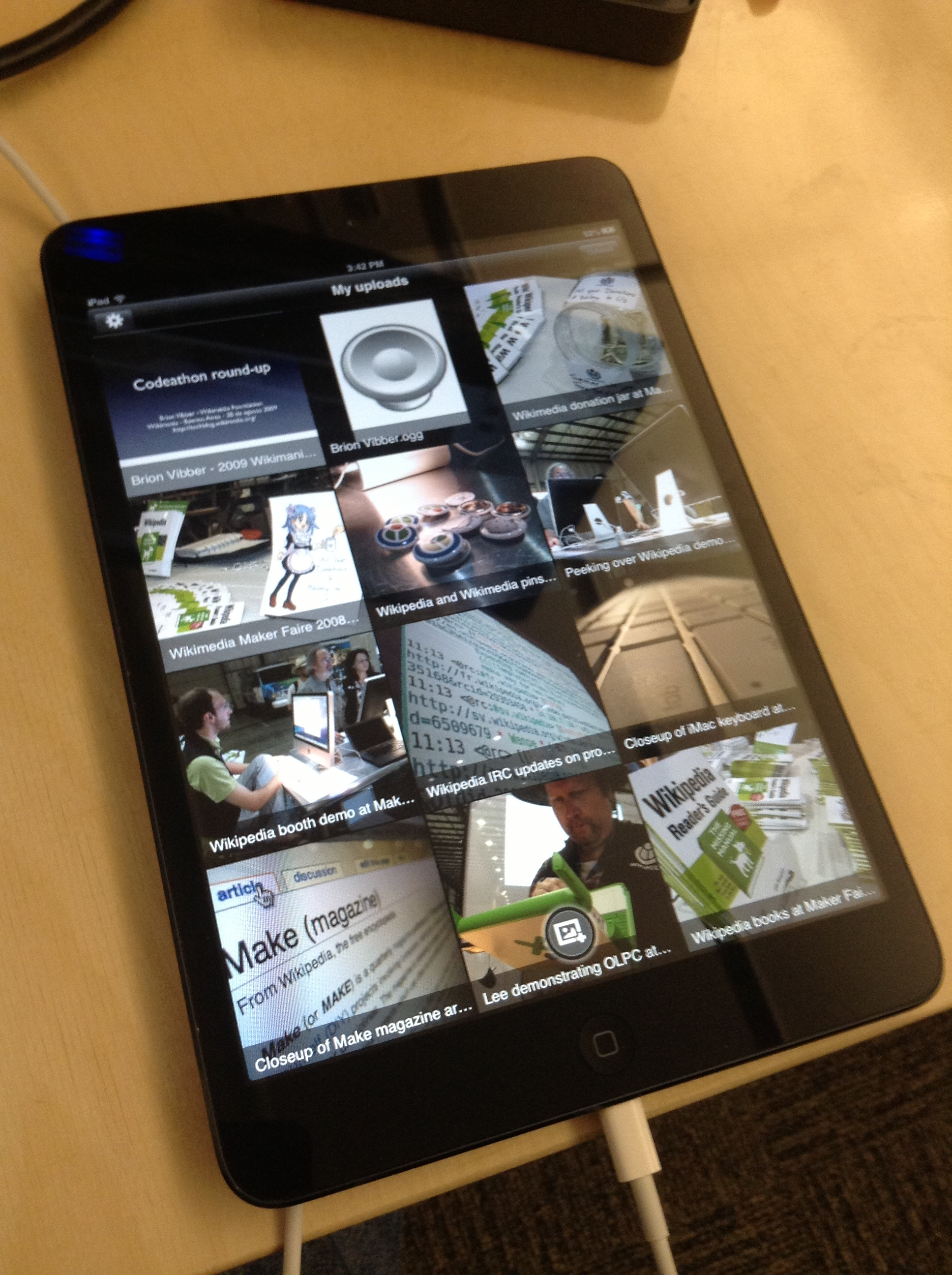 iPad mini running Commons mobile app.